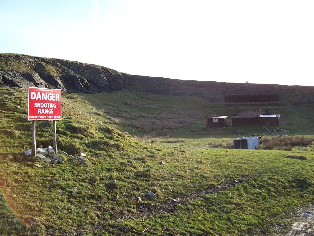 Greyrigg shooting range. No warning flag flying today.